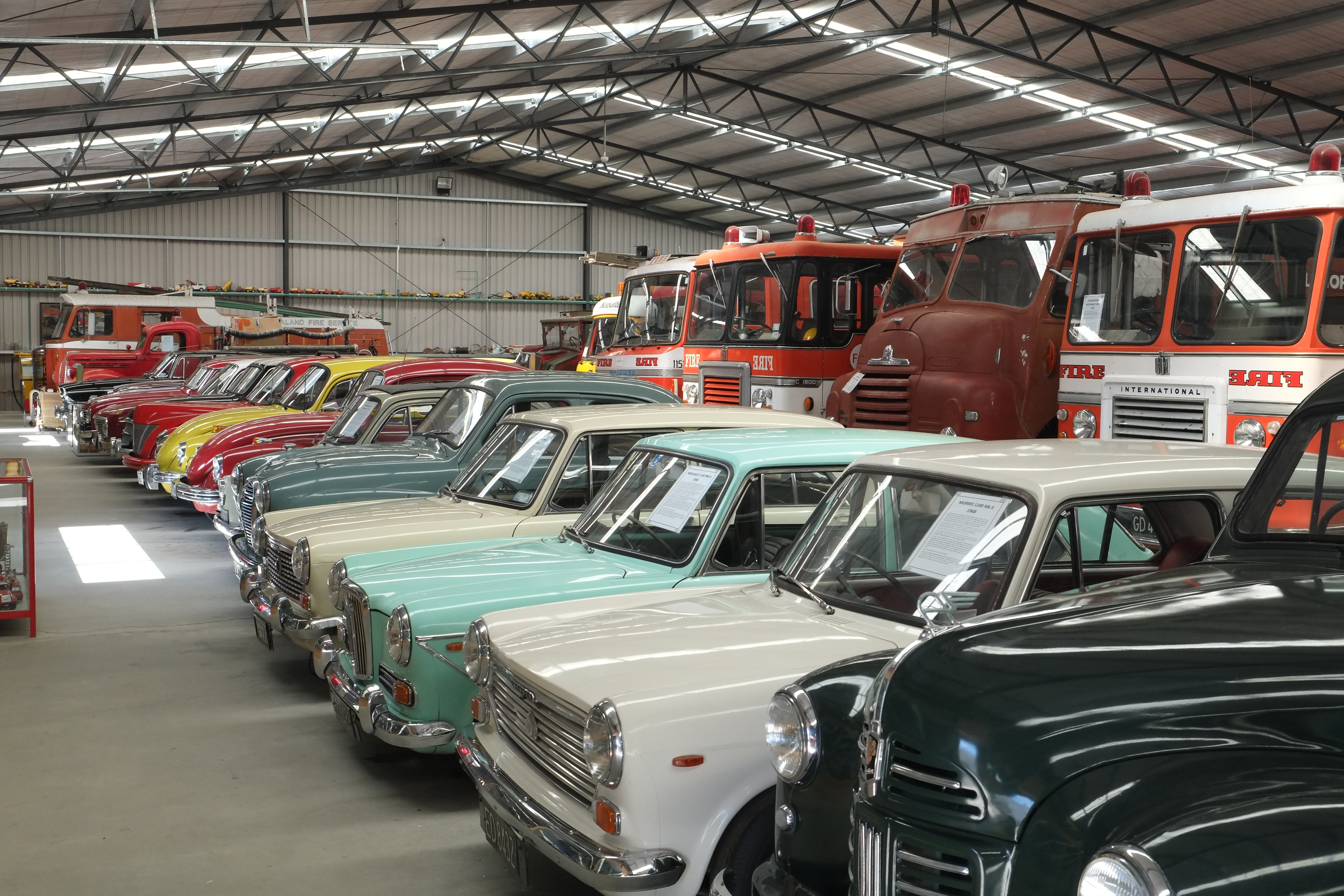 Collection of classic British and European cars and fire trucks at Wanaka Transport and Toy Museum